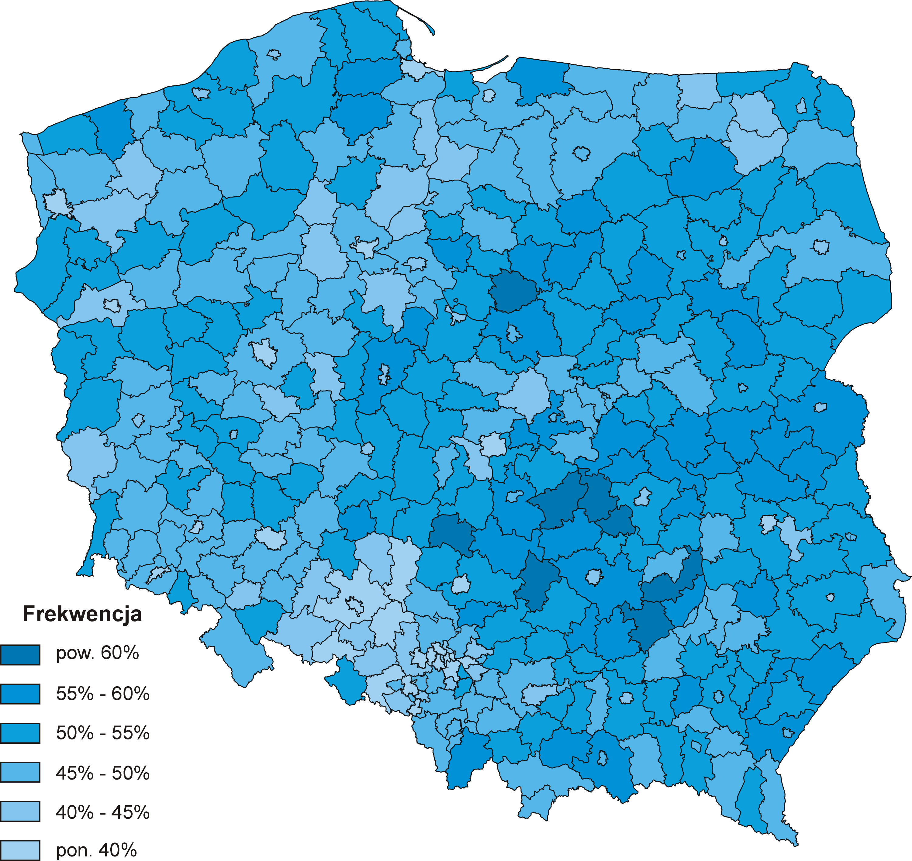 Map showing turnout in first round of Polish local elections in 2010. Data was taken from